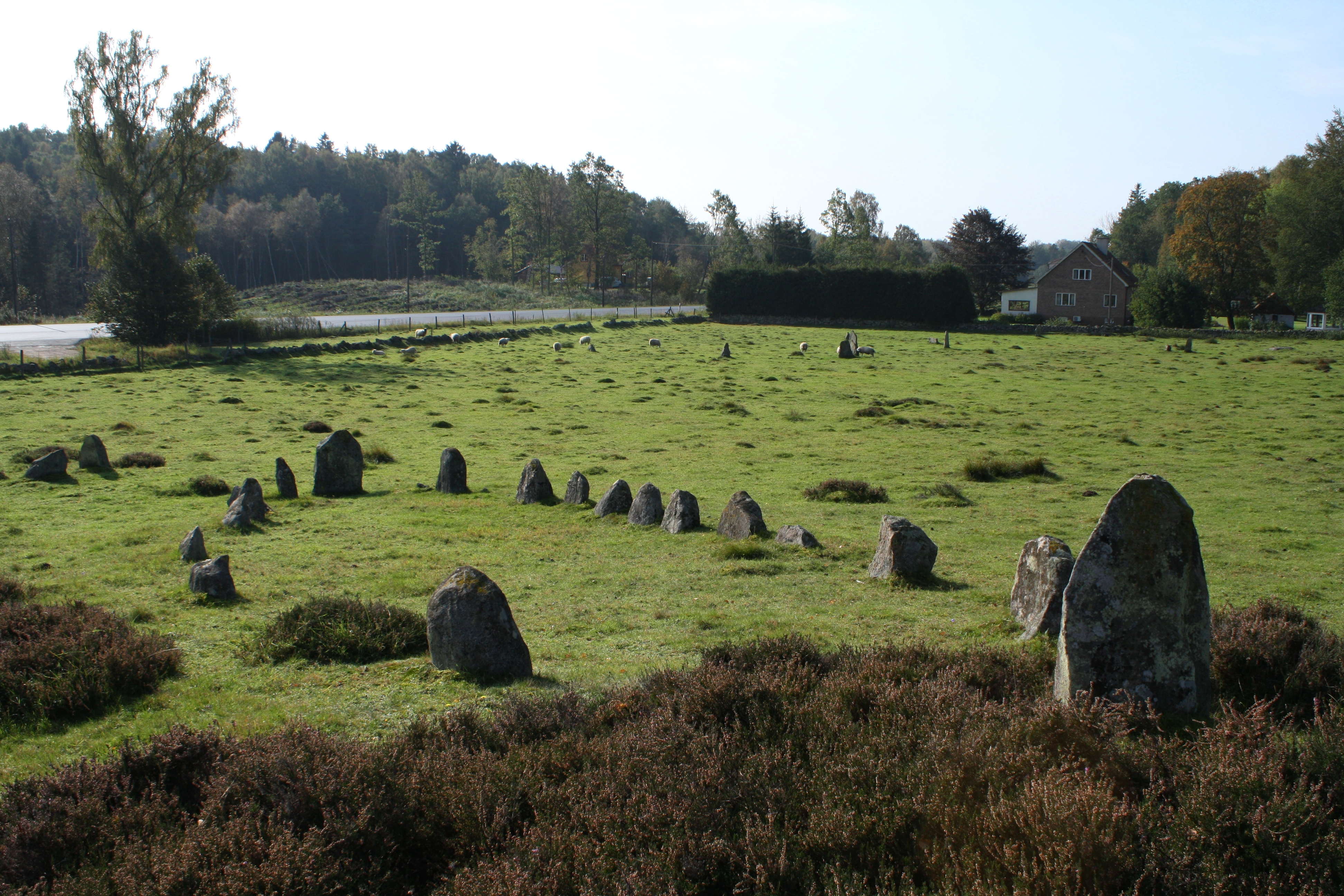 Grave field of Vetteryd, Norra Mellby 1:1, Scania. Ship tumuli from 500-900 A.D.